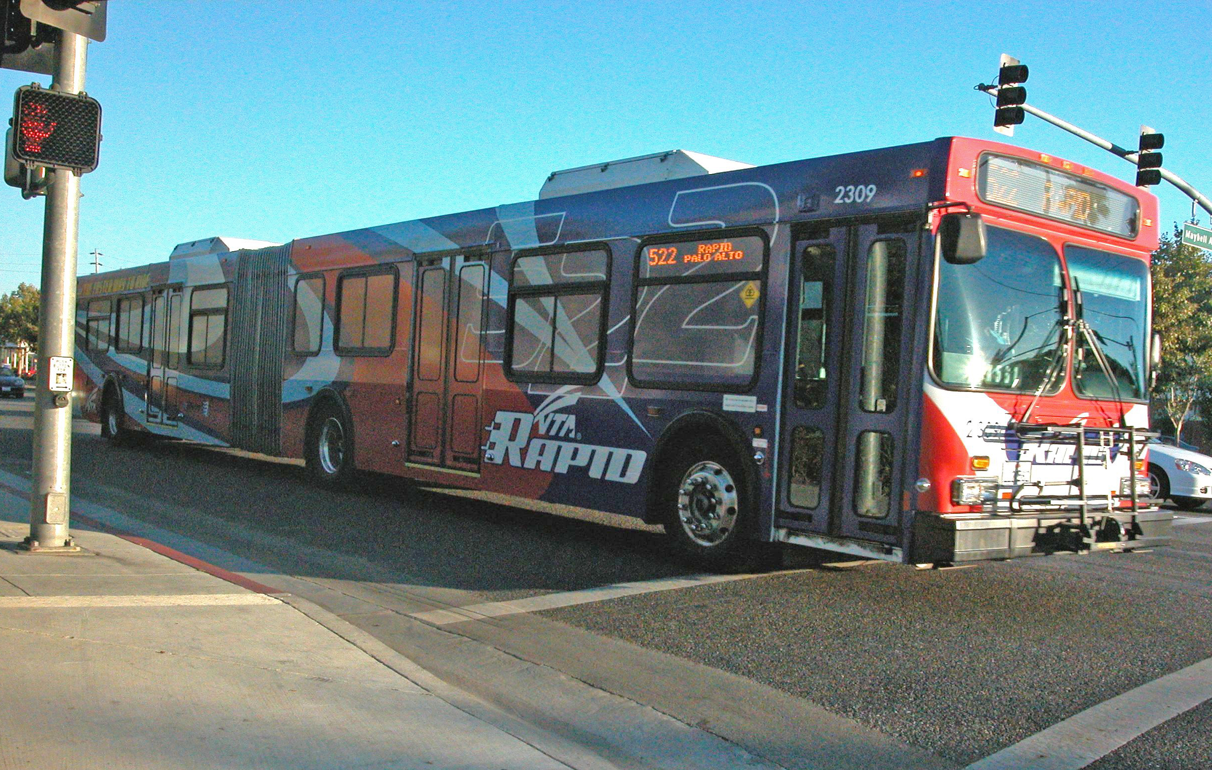 VTA New Flyer D60LF Rapid Bus.